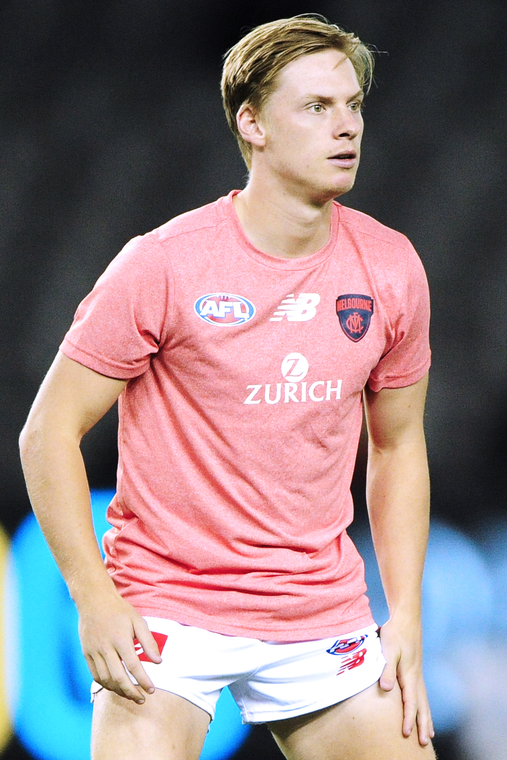 Charlie Spargo of Melbourne during the 2018 AFL round 6 match between Essendon and Melbourne at Etihad Stadium on Sunday, 29 April 2018 in Melbourne, Victoria.